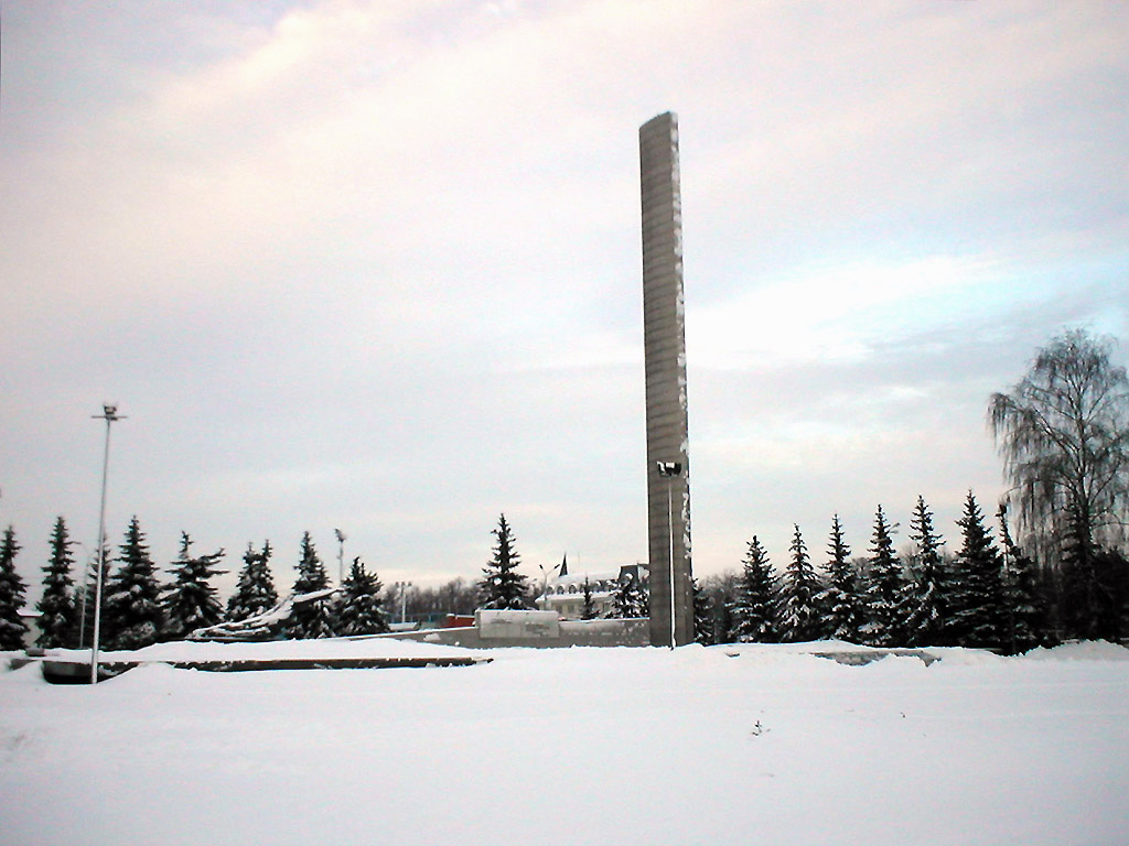 Gorky park square in Kazan